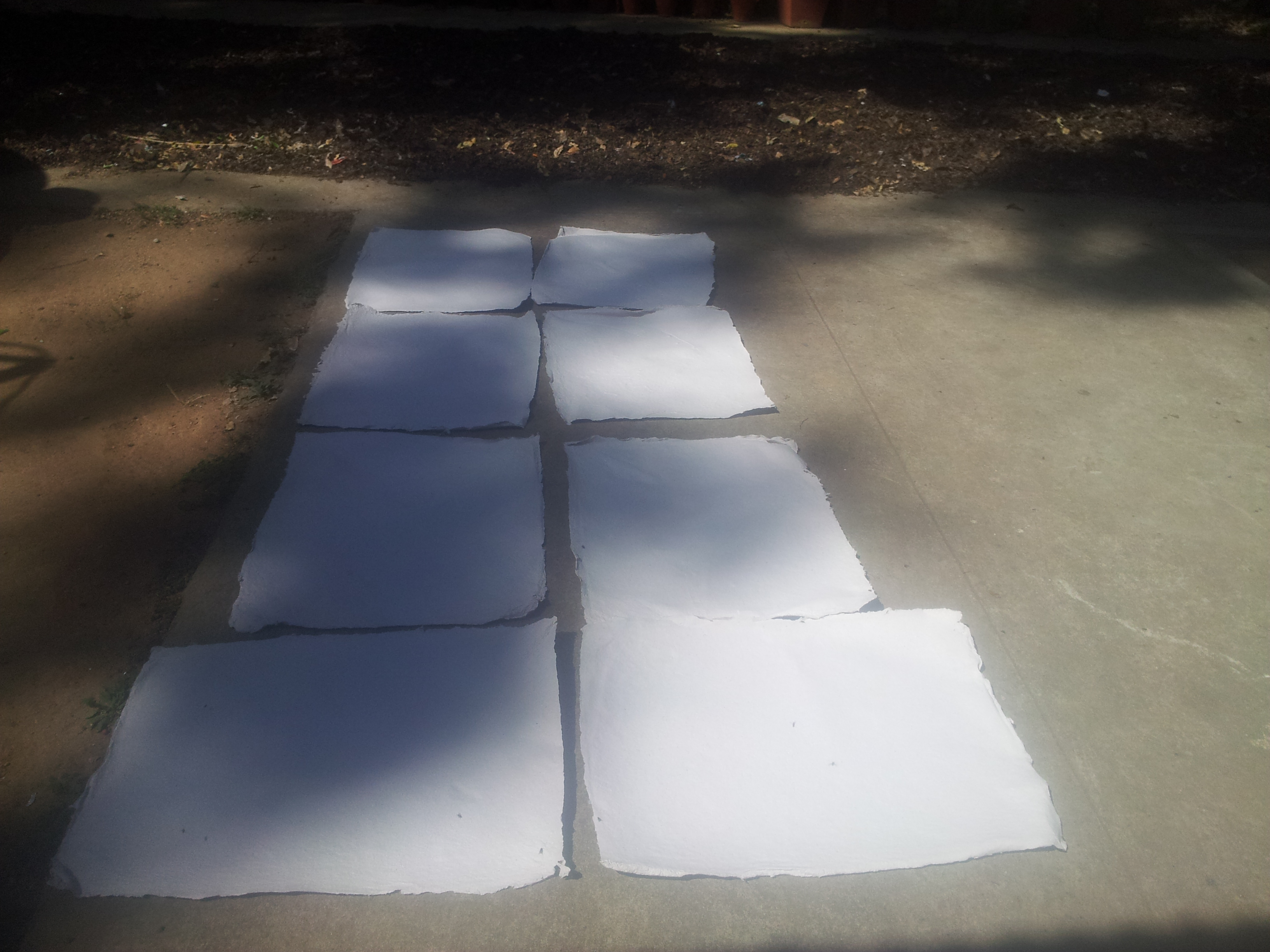 ಬಿಸಿಲಲ್ಲಿ